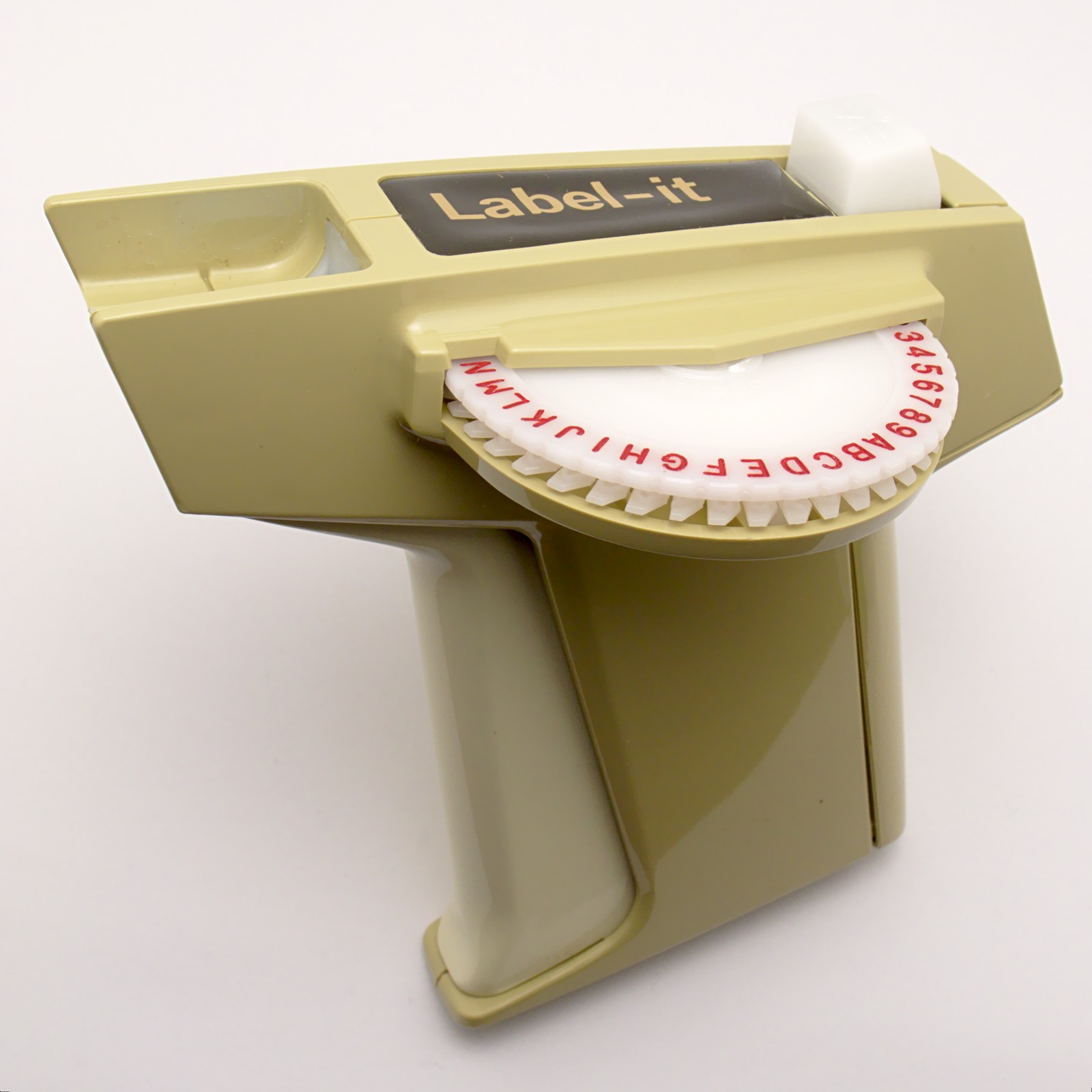 This DYMO Label-it label maker from the late 1960s produces a more compact lettering than more recent embossers.